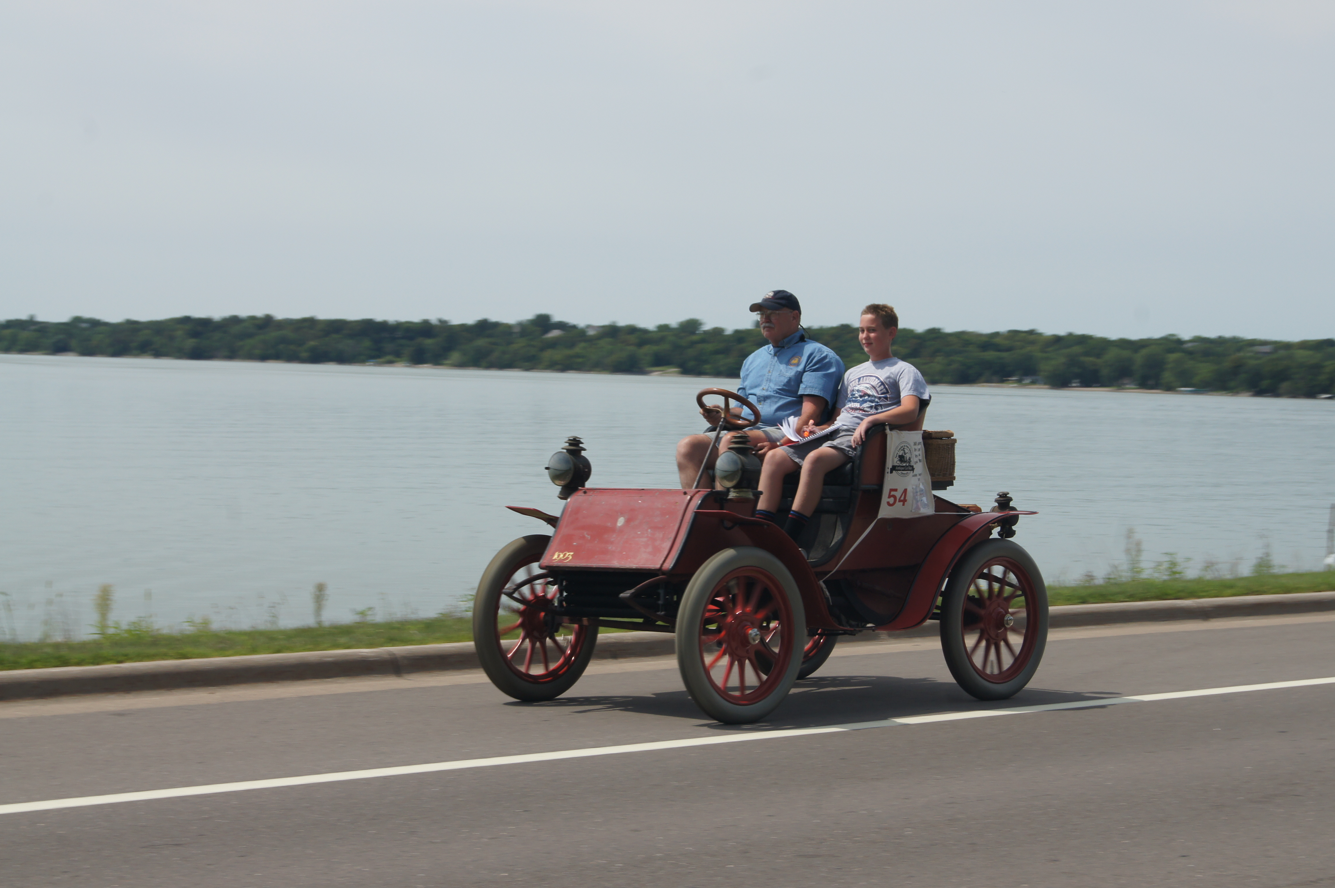 26th Annual New London to New Brighton Antique Car Run August 11, 2012.